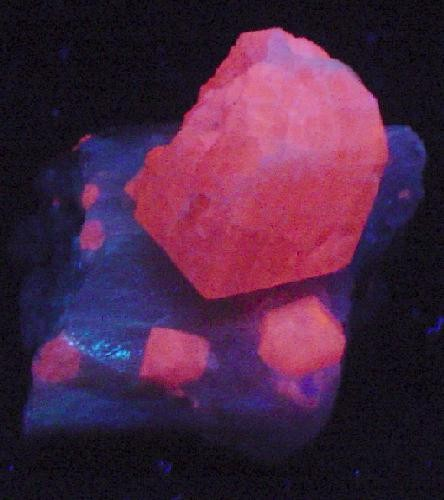 Sodalite (Var.: Hackmanite), Winchite Locality: Koksha Valley (Kokscha; Kokcha), Badakhshan (Badakshan; Badahsan) Province, Afghanistan (Locality at ) Size: 3.6 x 3.5 x 3.2 cm. Hackmanite is a rare sodium-rich variety of sodalite. This superb combination specimen features a 1.8 cm tall, sharp, gemmy and lustrous, pink crystal stalwartly perched upright on a matrix of lustrous, tan winchite. Winchite is a rare amphibole group mineral and these crystals from this locality set the world standard for the species now. Smaller hackmanite crystals are nicely scattered on the winchite. The hackmanite has beautiful orange fluorescence and yellow phosphorescence.